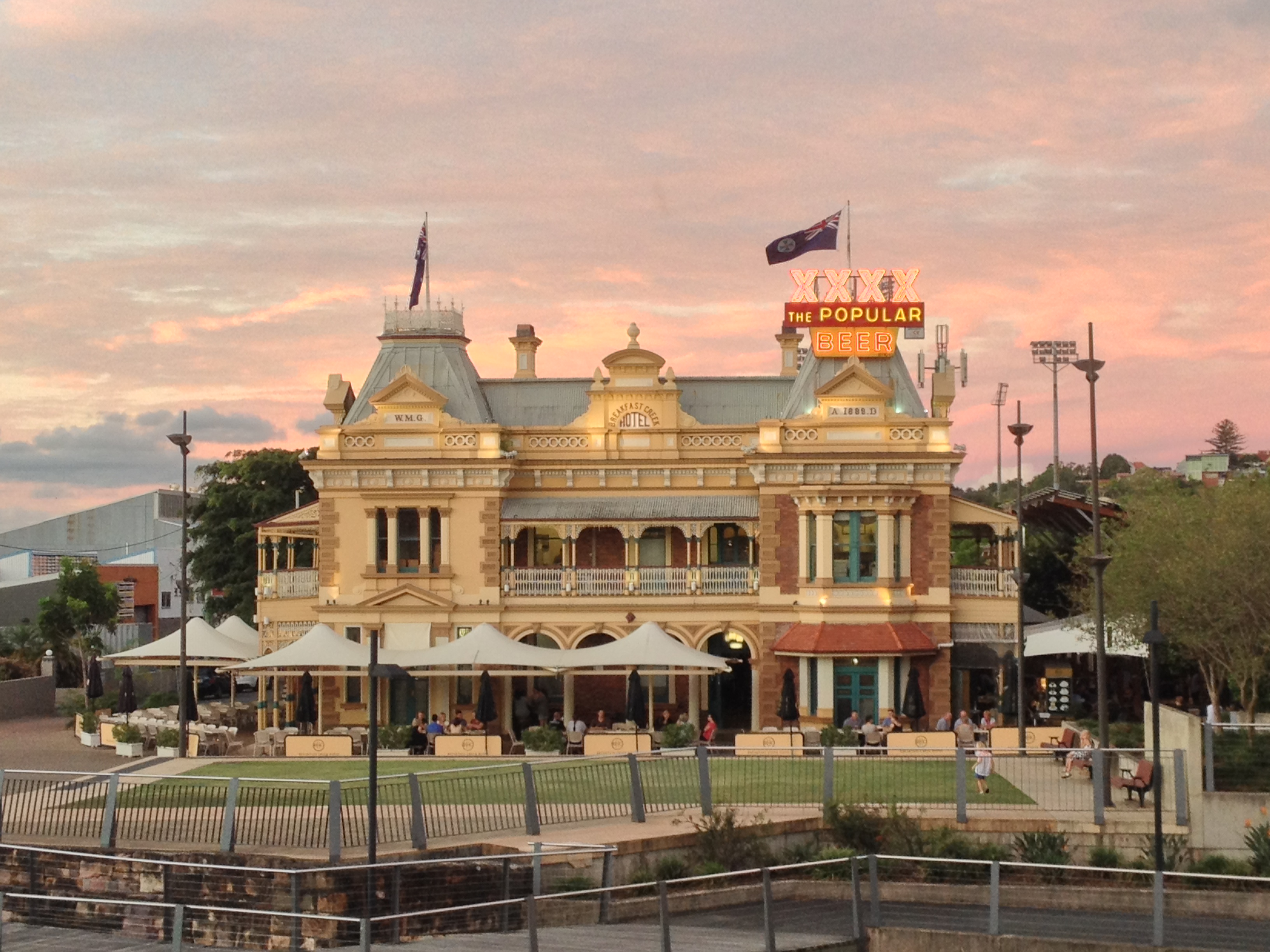 Breakfast Creek Hotel at twilight, Brisbane, Australia